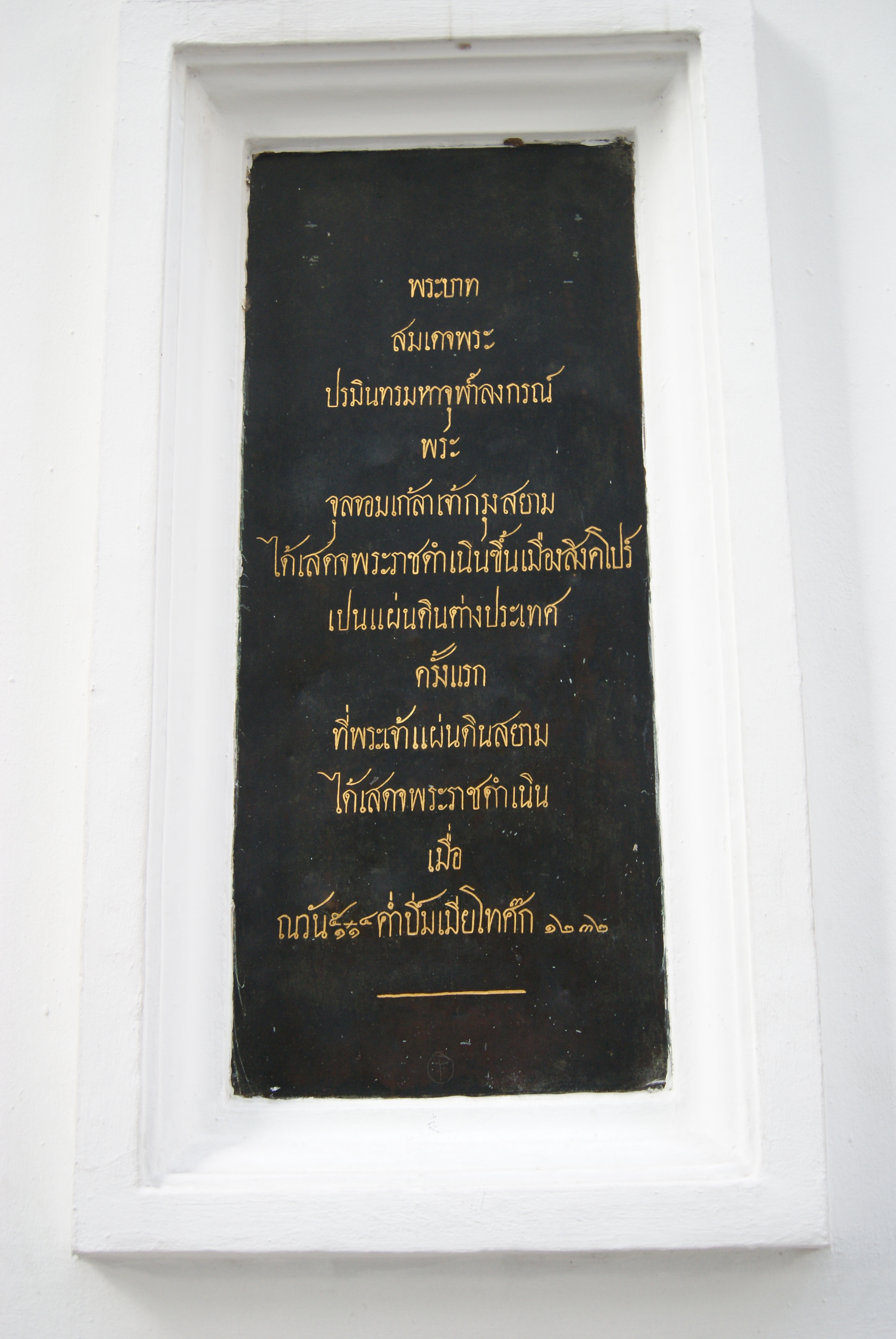 Thai version of a plaque on the elephant statue at the Old Parliament House, Singapore.